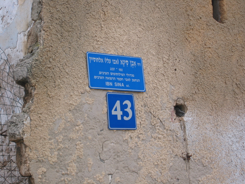 A street sign in Jaffa indicating Ibn Sina Street (named after Avicenna). The sign says: "Ibn Sina (Abu Ali) Al-Hussein St., 980-1037, one of the greatest Arab philosophers, regarded as the forefather of Arab sages of medicine". Note: even though the sign refers to Avicenna as "Arab", he is Persian.